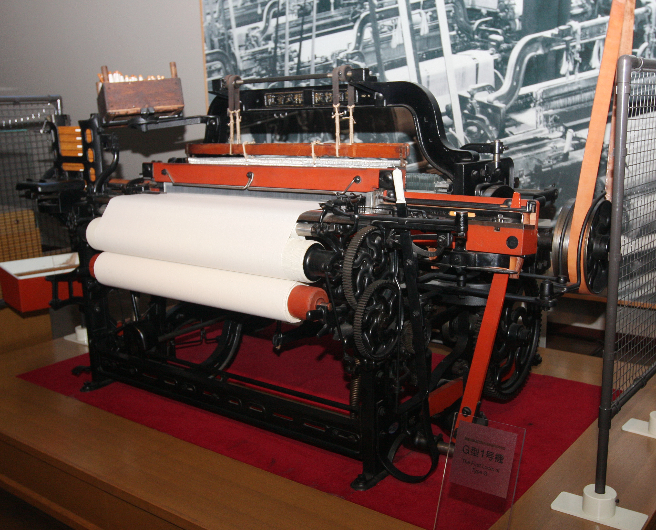 1924 Non-stop shuttle change Toyoda automatic loom, Type G, "無停止杼換式豊田自動織機（G型）", invented by Sakichi Toyoda.